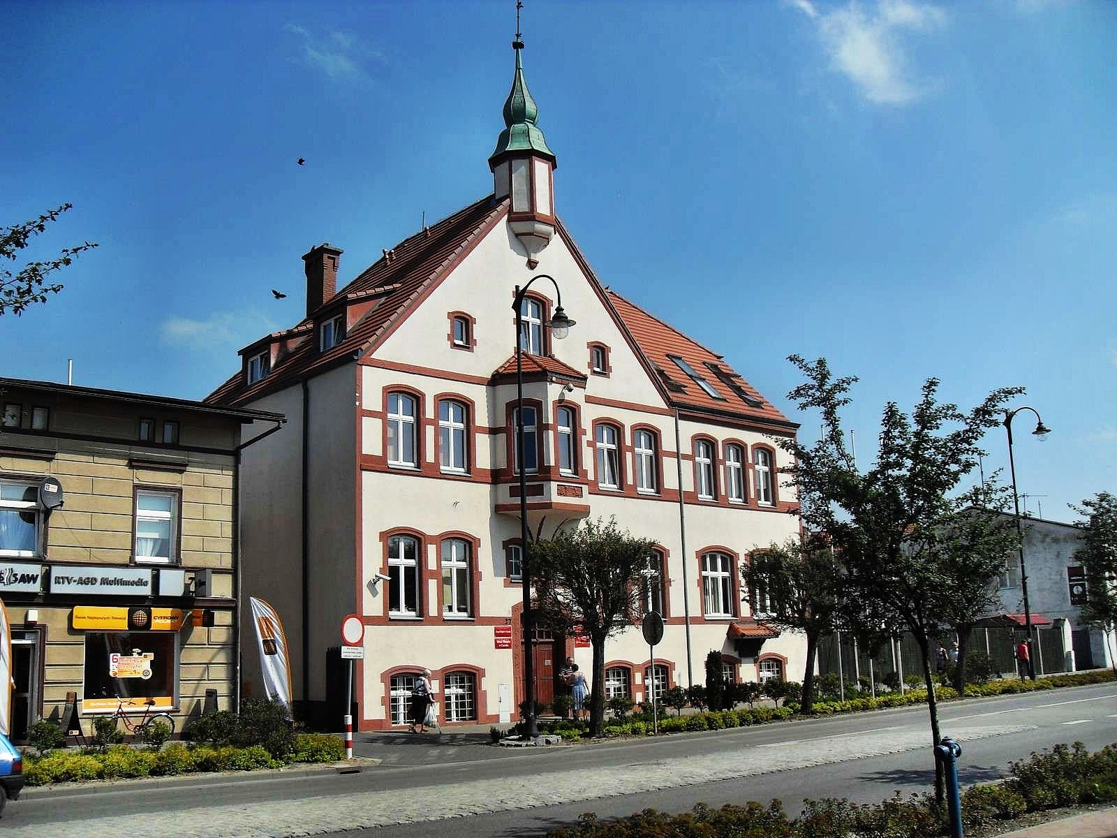 The Municipal Council Czersk